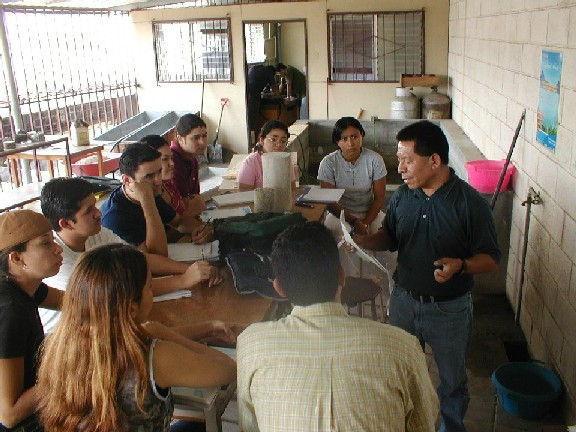 Alumnos en el laboratorio de Materiales